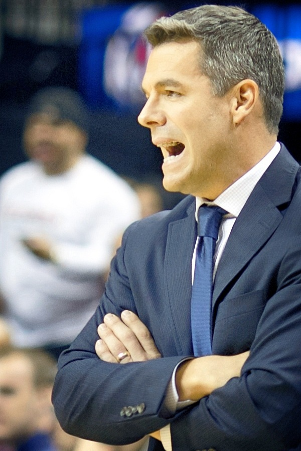 Tony Bennett during the championship game of the Barclays Classic at the Barclays Center in Brooklyn, New York, November 29, 2014. Virginia defeated Rutgers in a record defensive effort, 45–26.